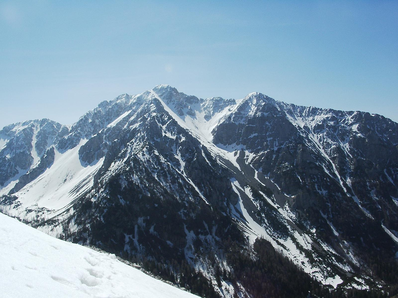 Northern face of Begunjščica (2060 m) in Karavanke mountain range (Slovenia). Taken from the slopes of Vrtača (2180 m). Author: Matija Podhraški. Taken during the winter 2004/2005.